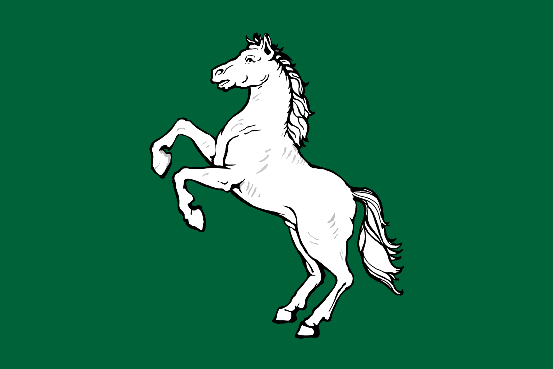 Flag of Tomsk, Tomsk Region, Russia